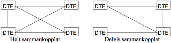 A simple illustration for a mesh- and a true mesh topology in a computer network